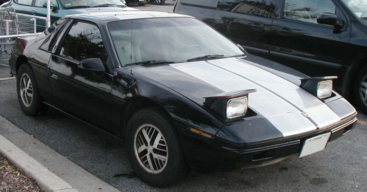 Pontiac Fiero photographed in USA.